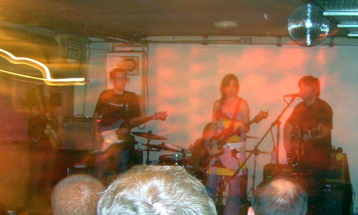 Tompaulin - the band, not the poet - playing at RoTa, Notting Hill, 13 August 2005. It's a pity that the guy's head in the foreground caught the autofocus, but these things happen when you're waving your camera in the air somewhere near the back of a tiny club... See where this picture was taken. [?]